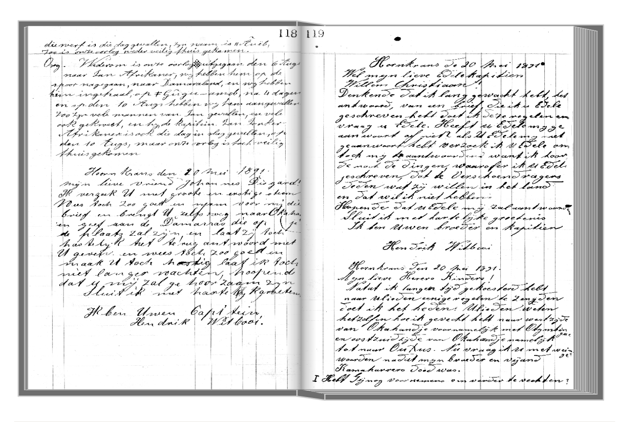 Letter Journal No. 1 of Hendrik Witbooi, pages 118-119